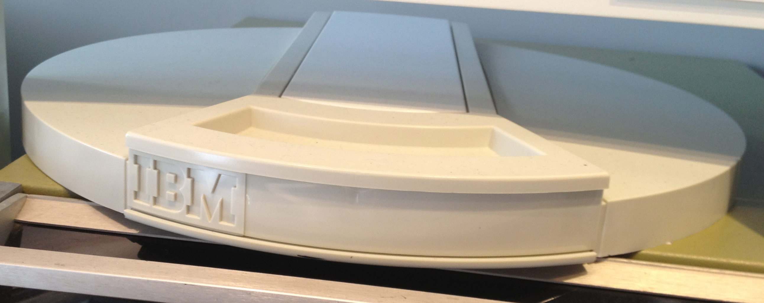 IBM 2315 disk cartridge used in the IBM 1130 computer, at the Computer History Museum